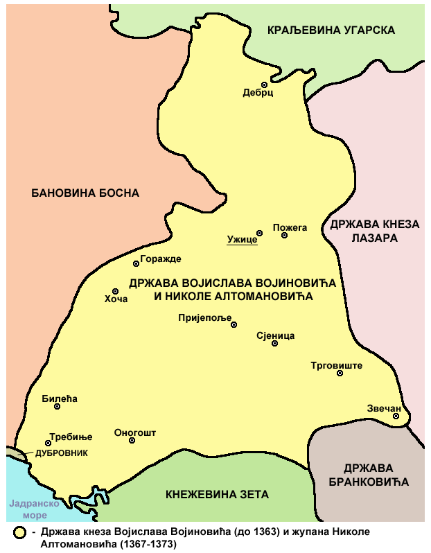 Realm of prince Vojislav Vojinović (until 1363) and župan Nikola Altomanović (1367-1373).